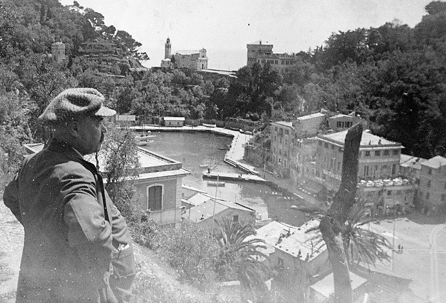 Italy, Portofino